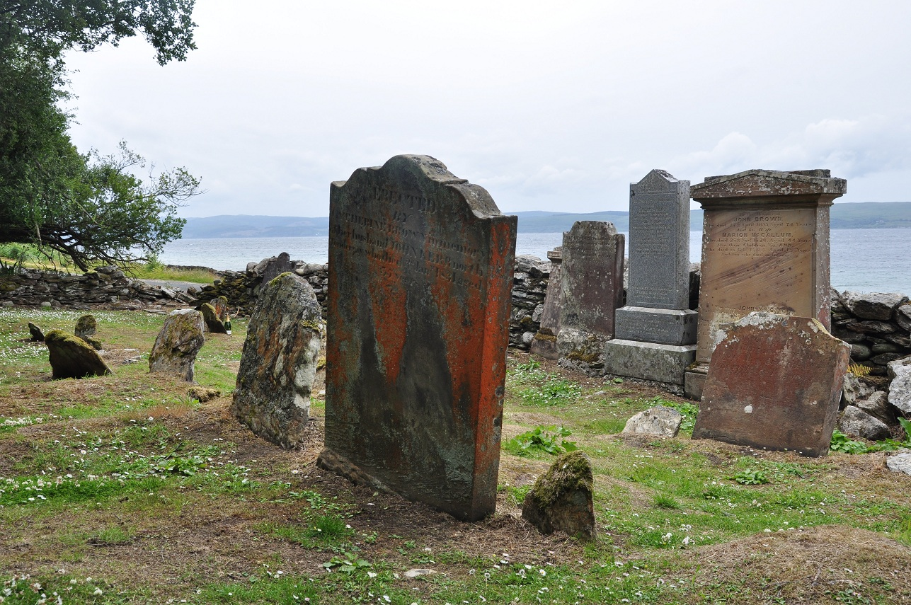 Ancient burial ground on the shoreline, 2 miles north of Pirnmill, Isle of Arran, Scotland. The Kintyre peninsula is in the background.